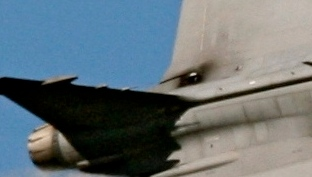 JAS Gripen. Rygge Air Show 2007.